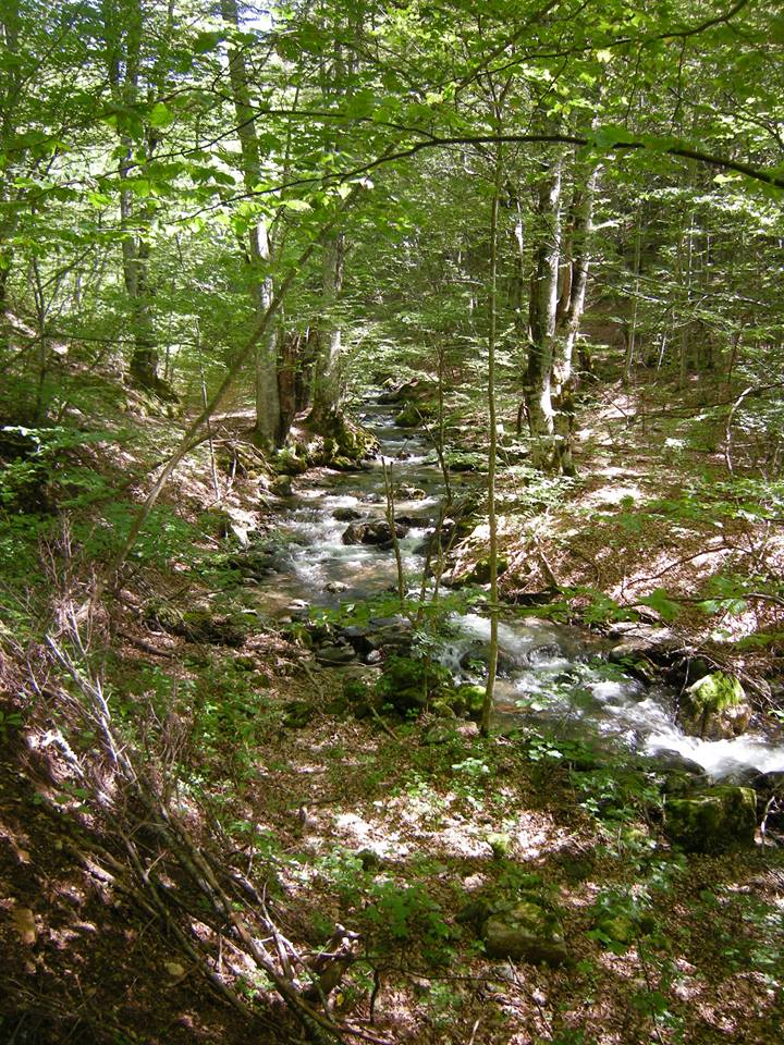 River in the town of Kicevo